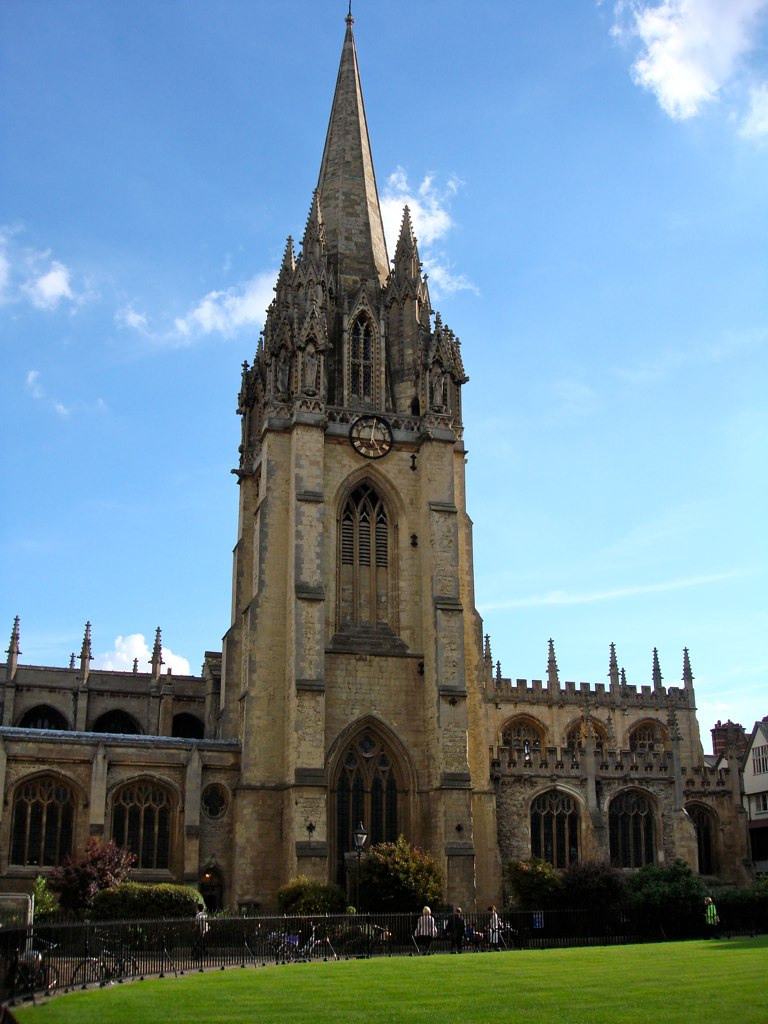 University Church of St Mary the Virgin